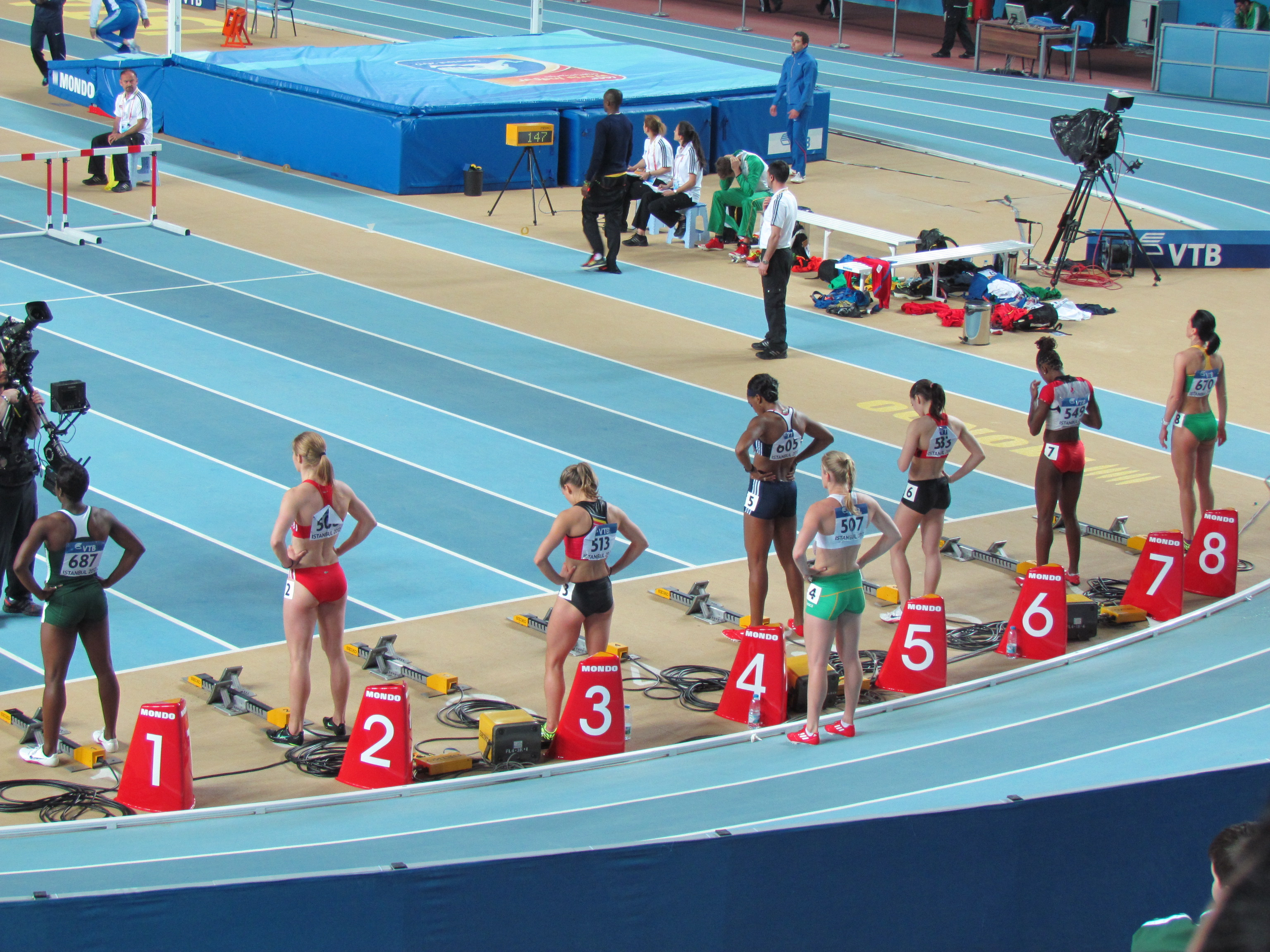 The 2012 IAAF World Indoor Championships in Athletics was the 14th edition of the global-level indoor track and field competition and was held between March 9–11, 2012 at the Ataköy Athletics Arena in Istanbul, Turkey. Seun Adigun, Beate Schrott, Eline Berings, Sally Pearson, Tiffany Porter, Alina Talay, Nikkita Holder, Sonata Tamošaityte